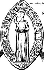 Beatrix of Provence